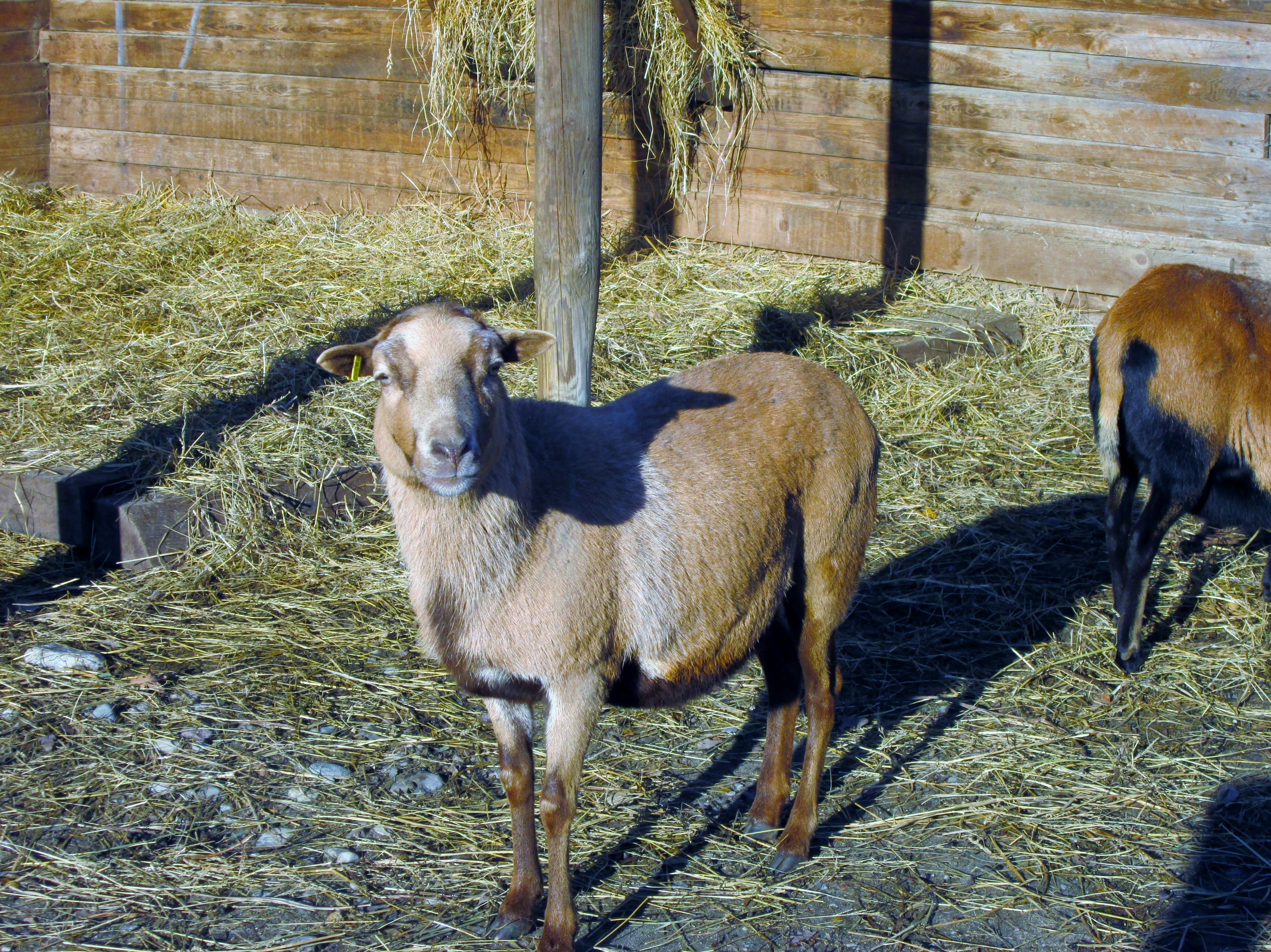 Camerun Sheep in Pombia ITALY